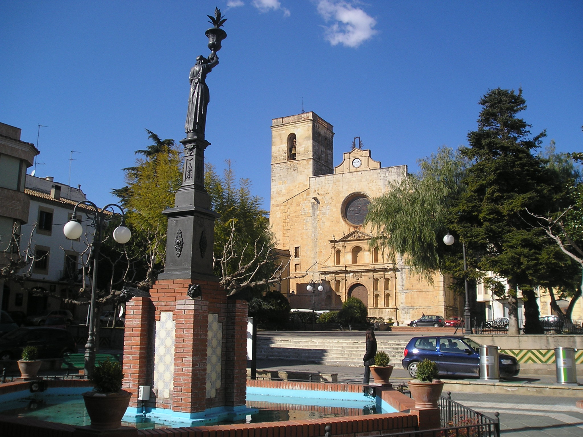 Church and squares of Riudoms